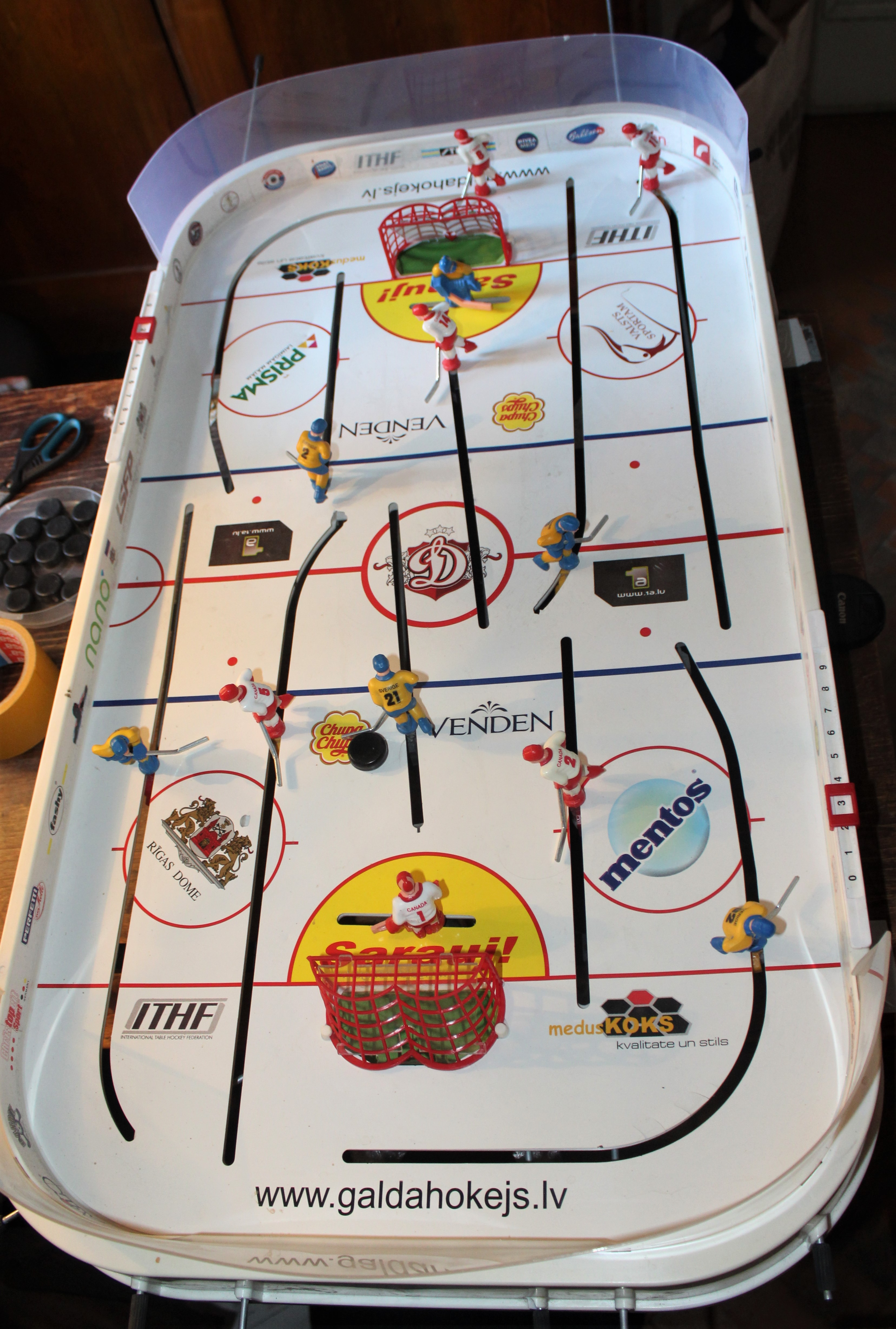 Stiga table hockey at home (Latvian edition).